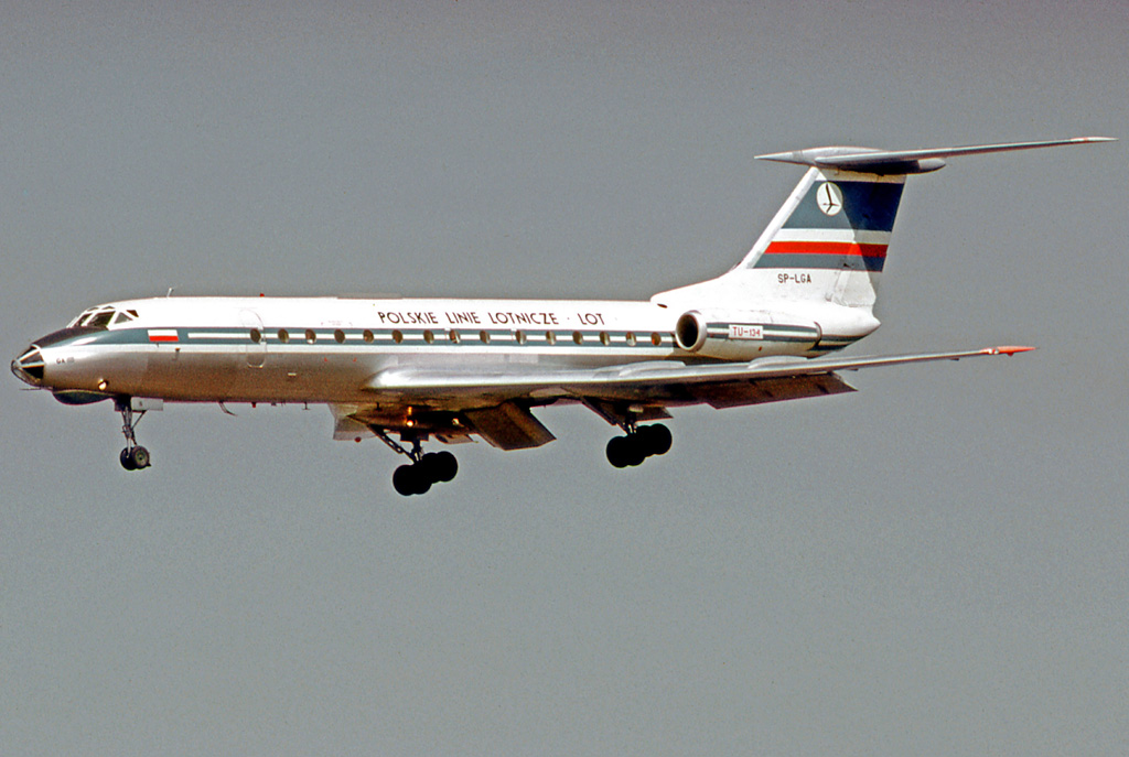 Tupolev Tu-134 SP-LGA of LOT Polish Airlines at Frankfurt Airport in 1974